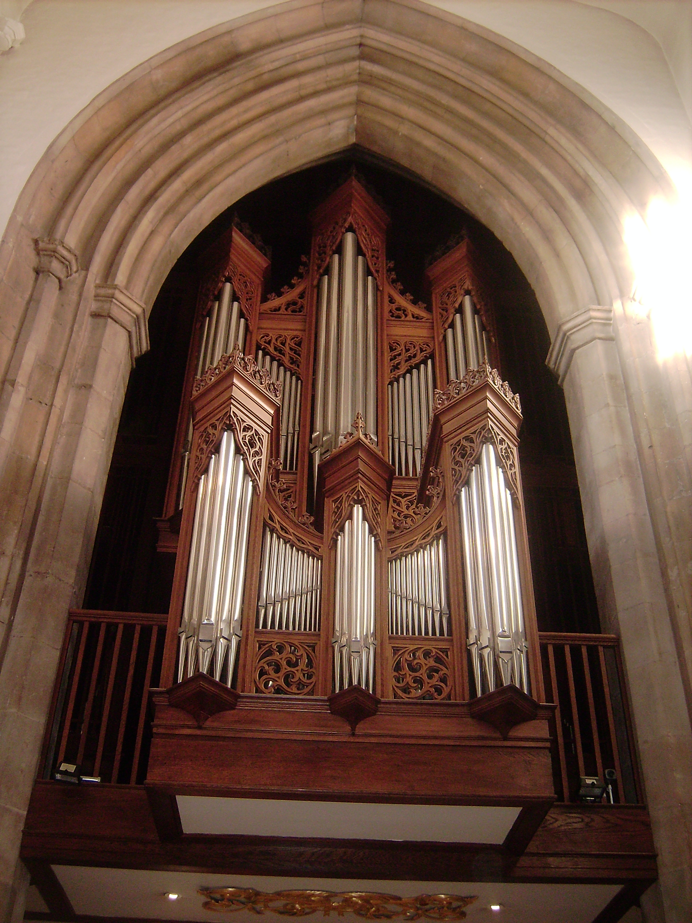 Chelmsford Cathedral: the Nave Organ